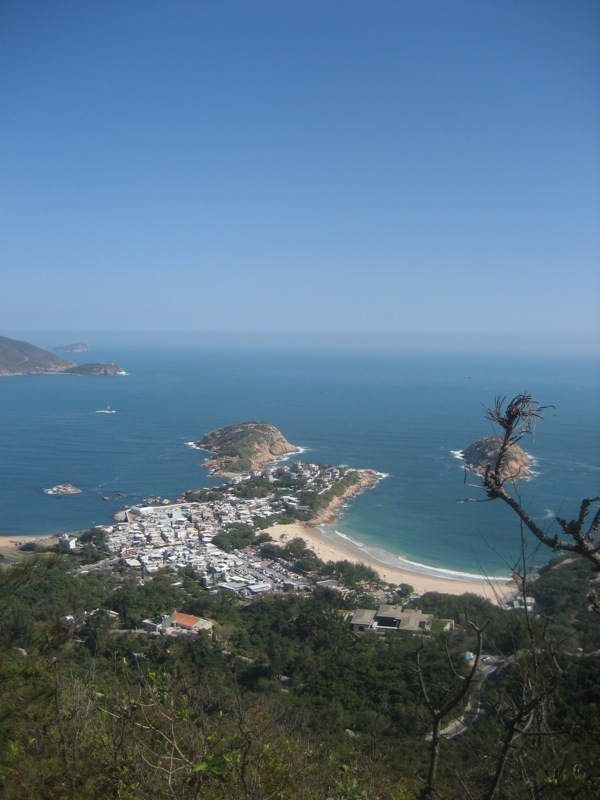 Shek-O from Dragon's Back